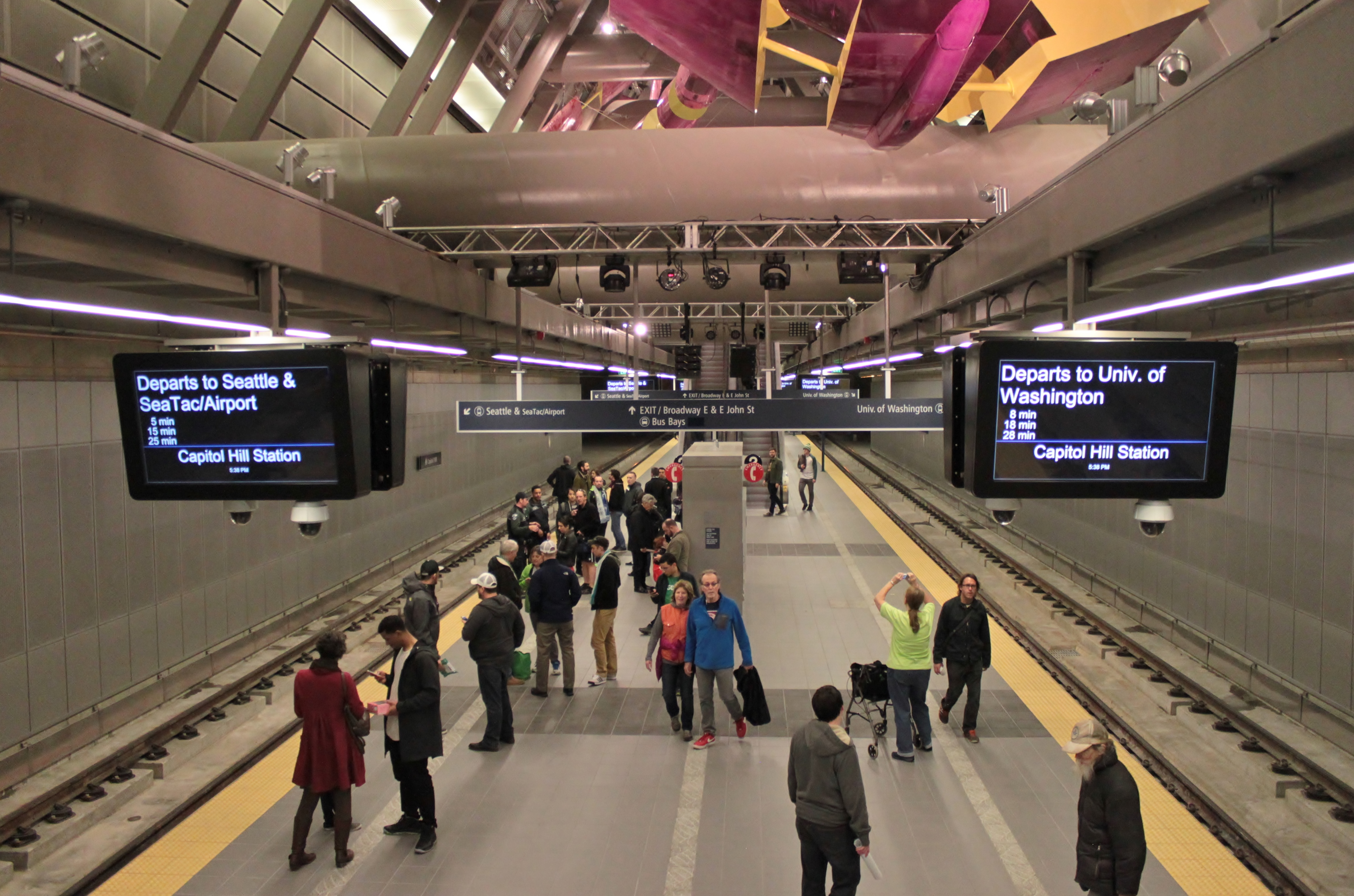 The platform at Capitol Hill station on the first day of University Link service, March 19, 2016.